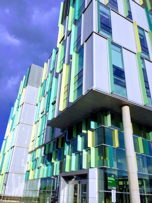 ACCE Building Front View